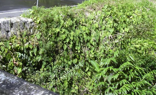 Philodendron sp. - habit family Araceae